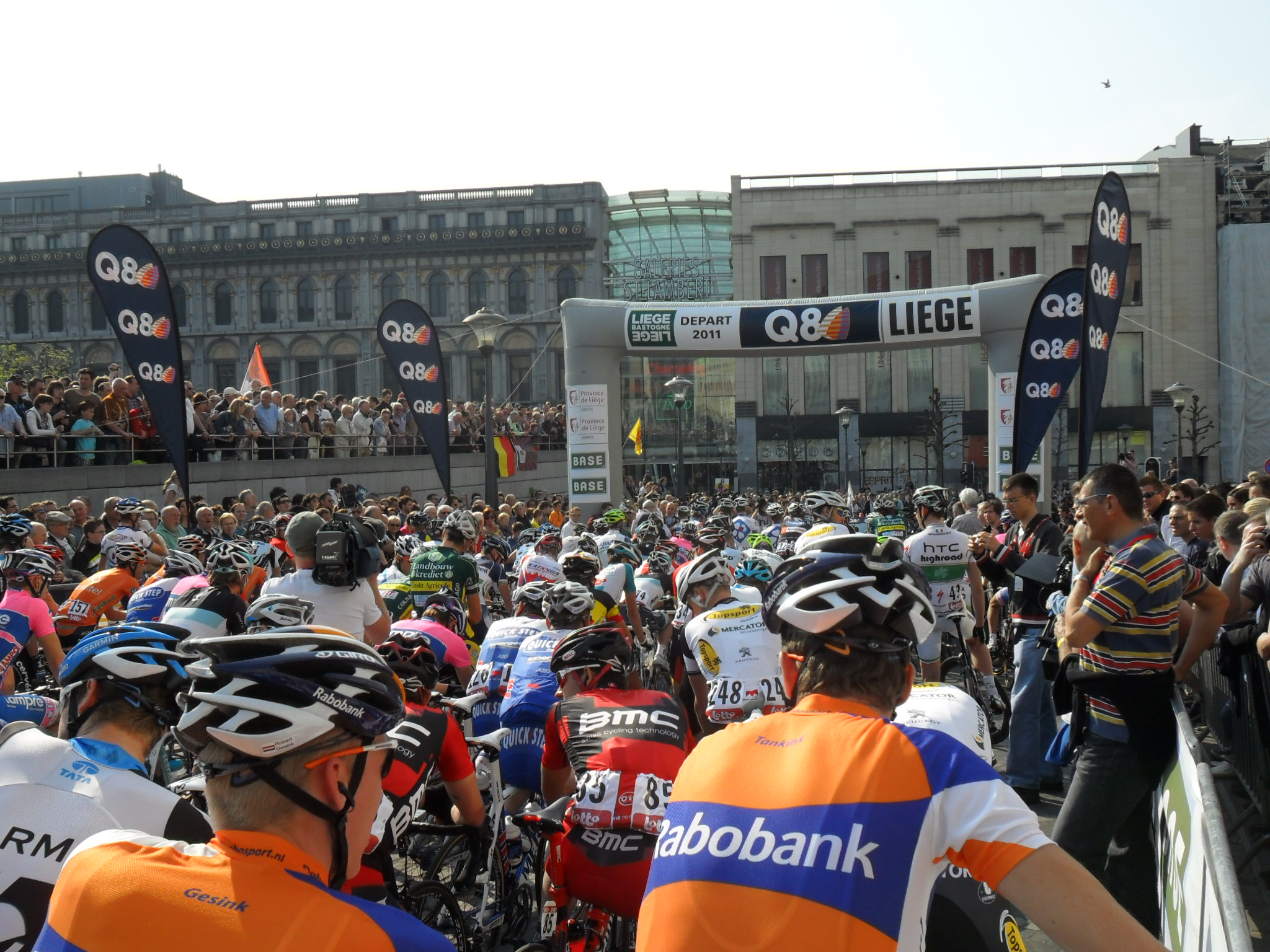 Start of Liège-Bastogne-Liège 2011